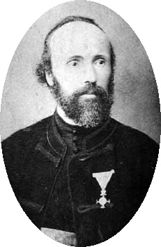 Milutin Tesla, father of Nikola Tesla. Photograph of person who died in 1879